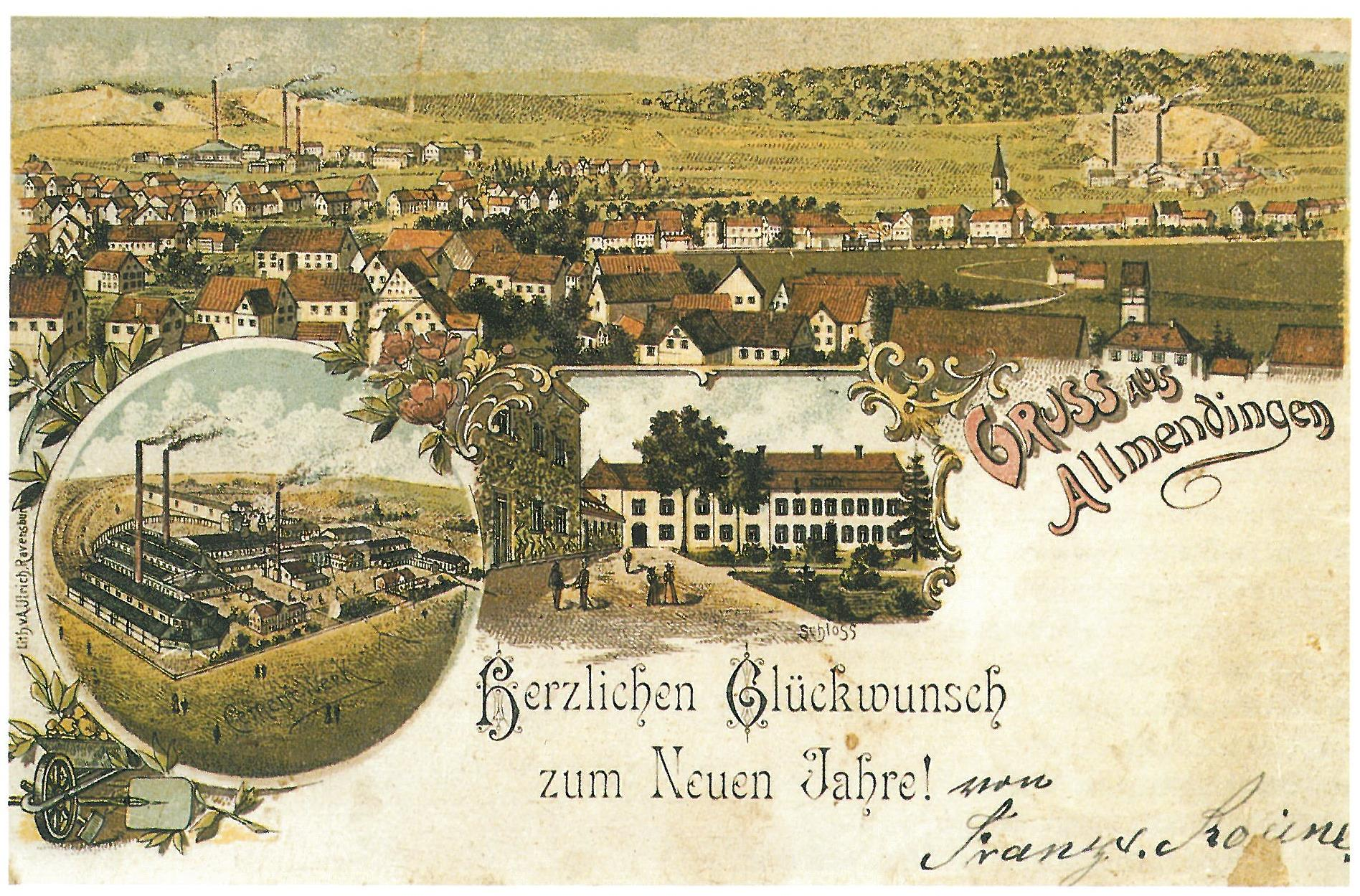 Post card of Allmendingen with both cement factories of Eduard Schwenk (left) and the Stuttgart Real Estate and Construction Company (right), approx. 1900